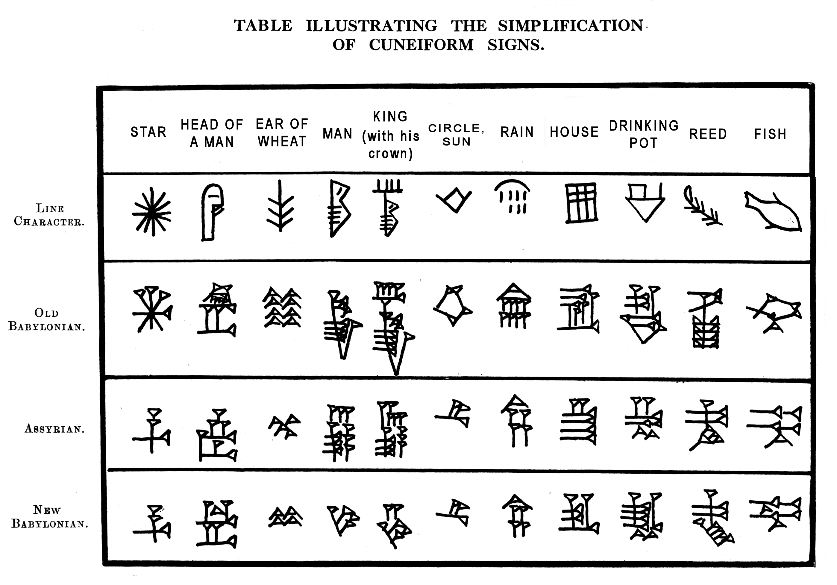 Table illustrating the simplification of cuneiform signs